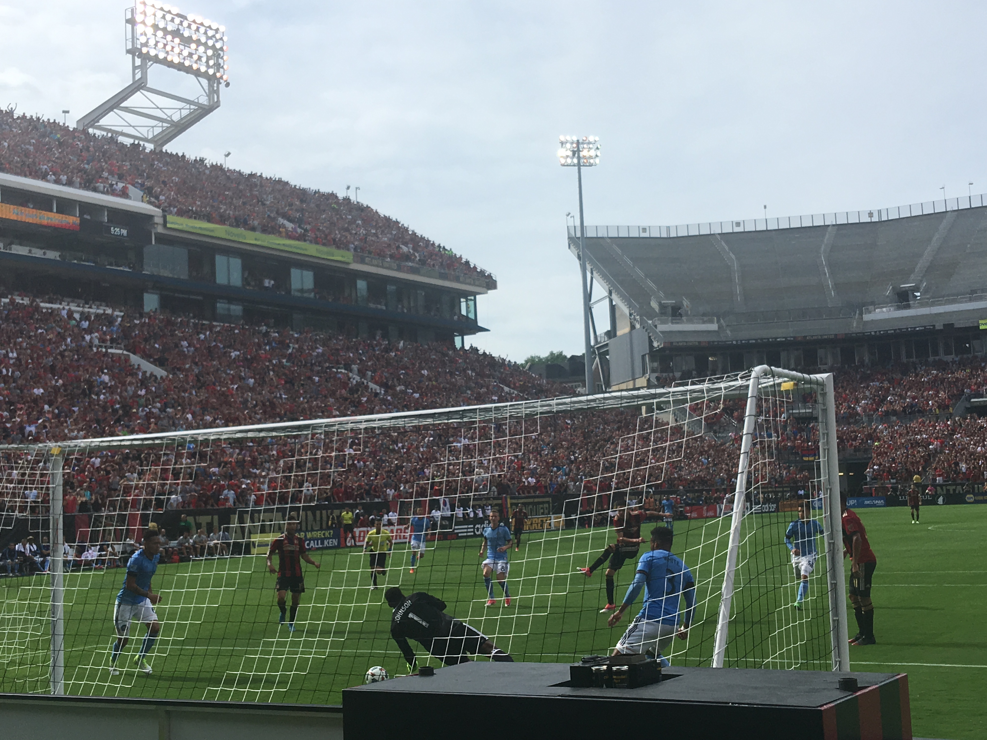 2017-05-28 - Atlanta United vs NYFC - Almiron scoring